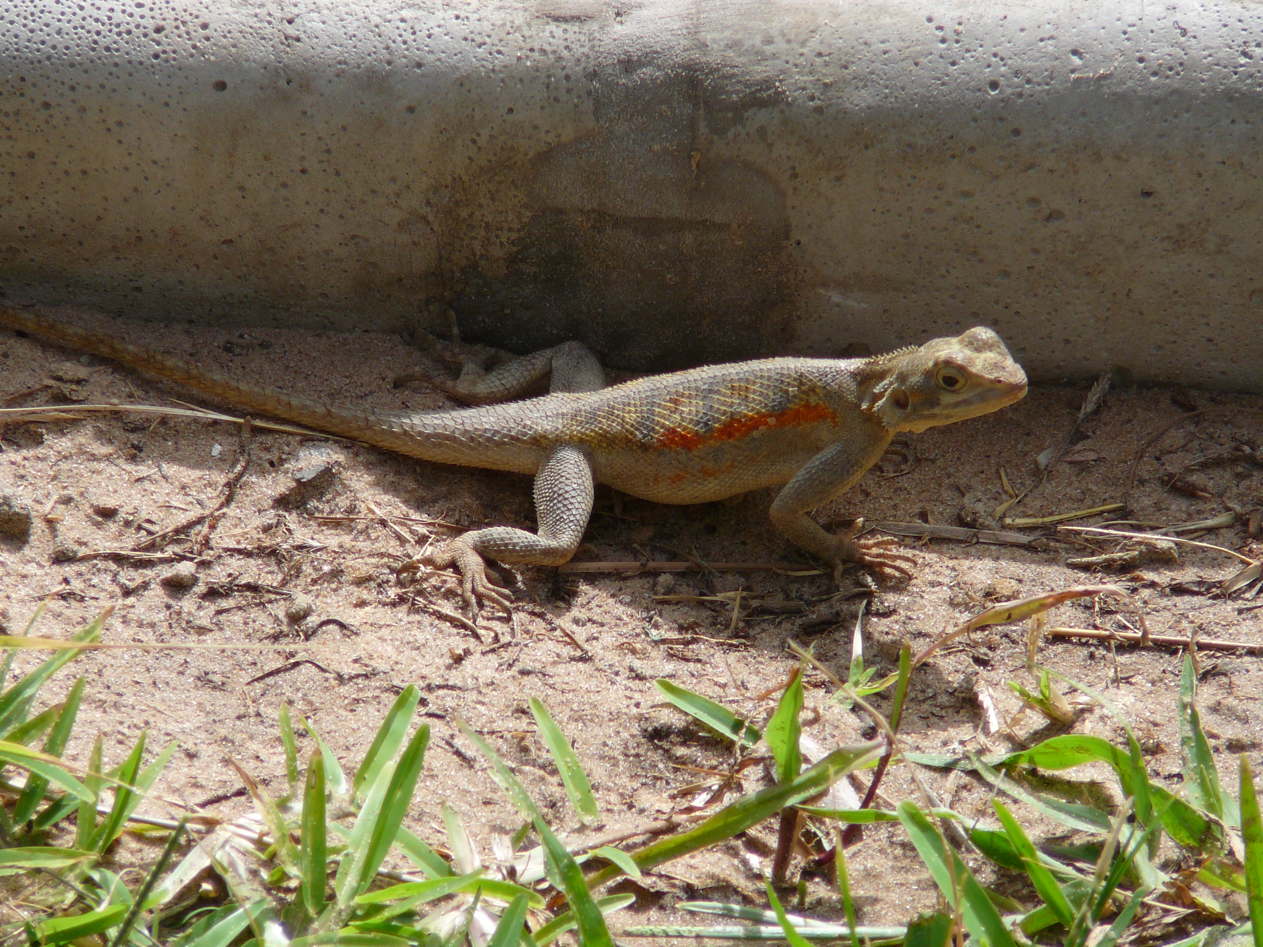 Agama lizard, female